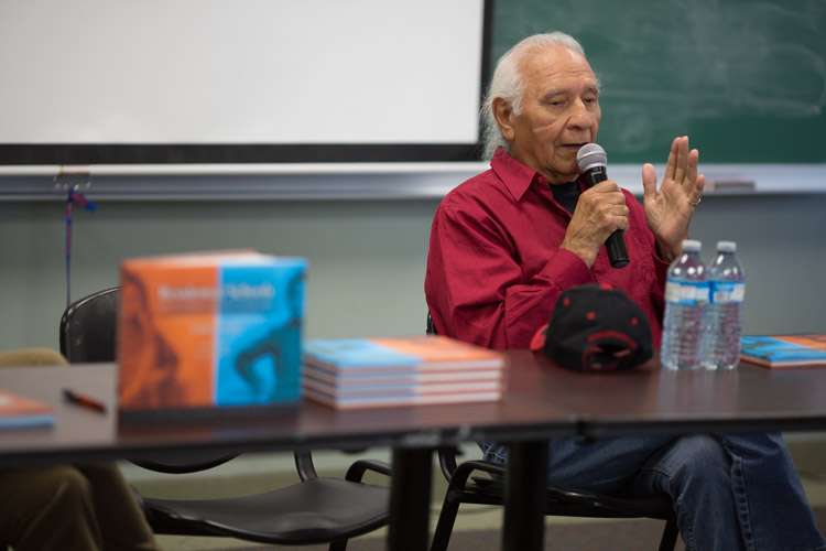 Larry Loyie at book launch at the Shingwauk Gathering held at Algoma University in 2015